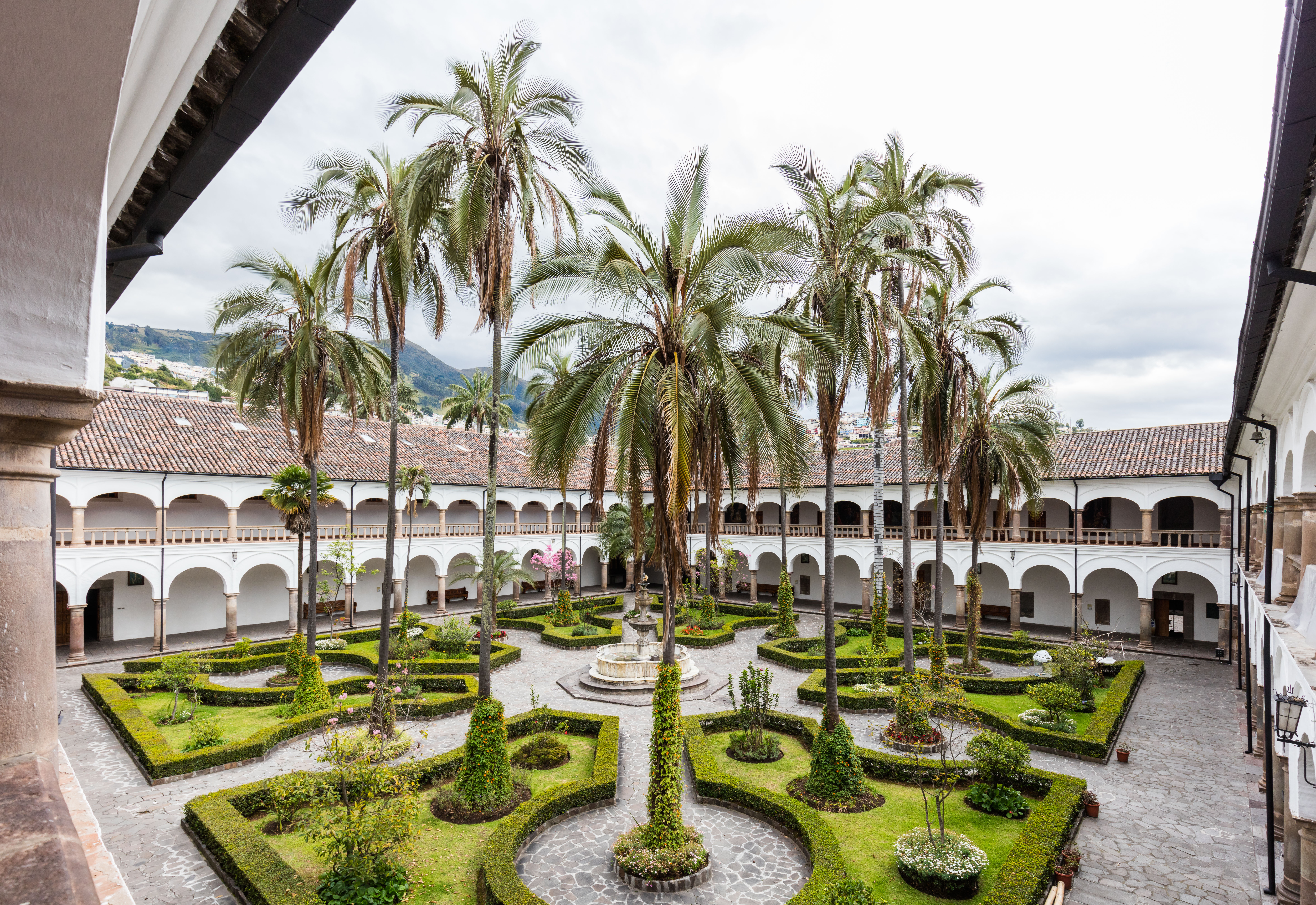 Museum of the church of San Francisco, Quito, Ecuador